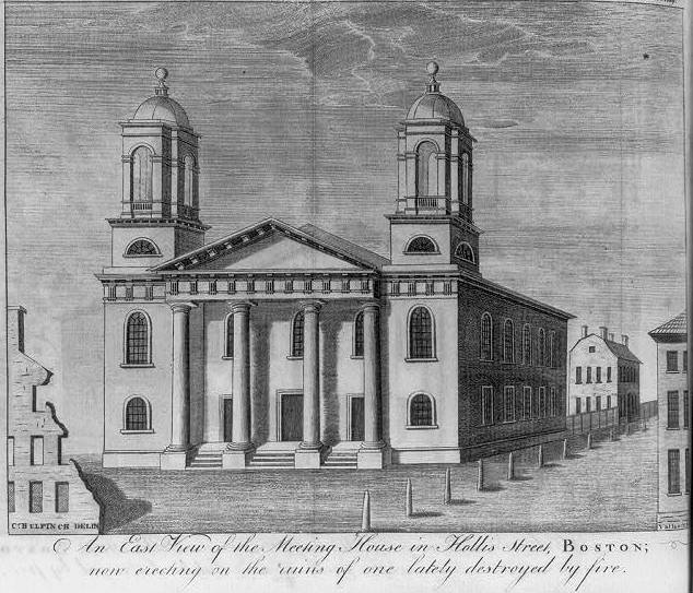 An east view of the meeting house in Hollis Street, Boston, now erecting on the ruins of one lately destroyed by fire / C. Bulfinch delin. ; Vallance sc.